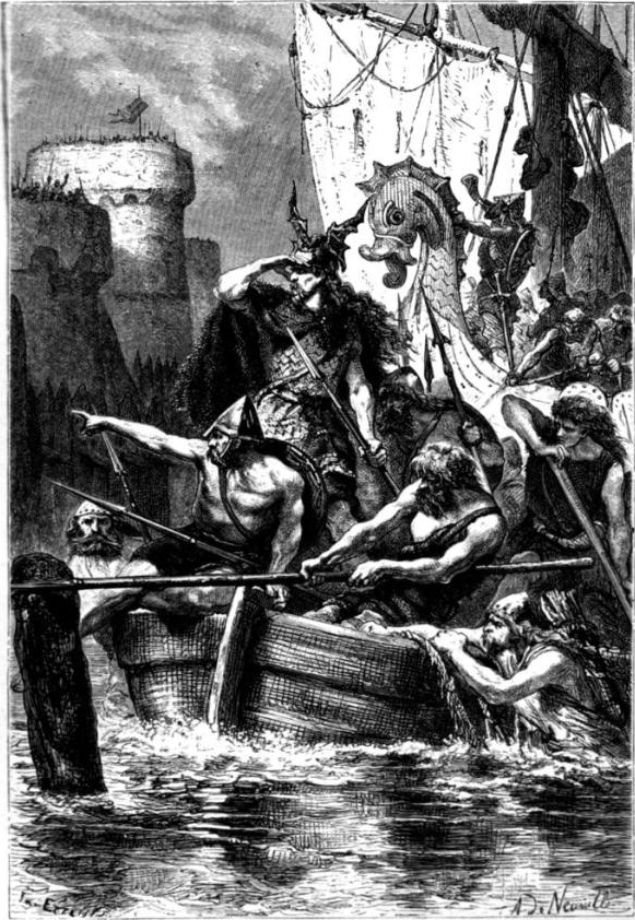 The Barques of the Northmen